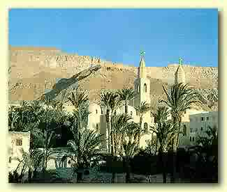 Monastery of Saint Anthony